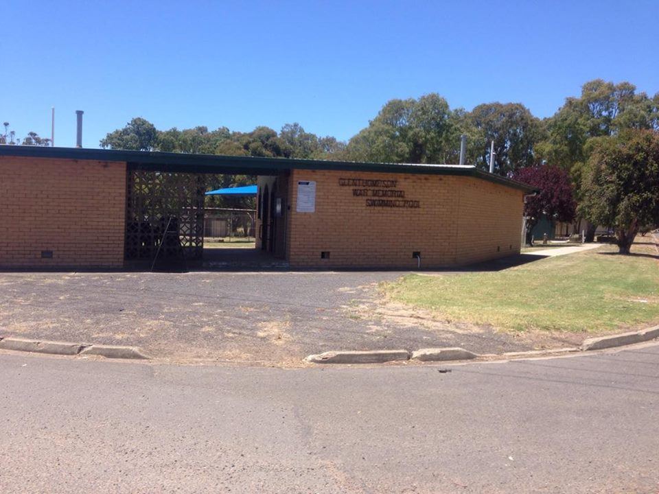 The local swimming pool of the rural Victorian town of Glenthompson (2016)